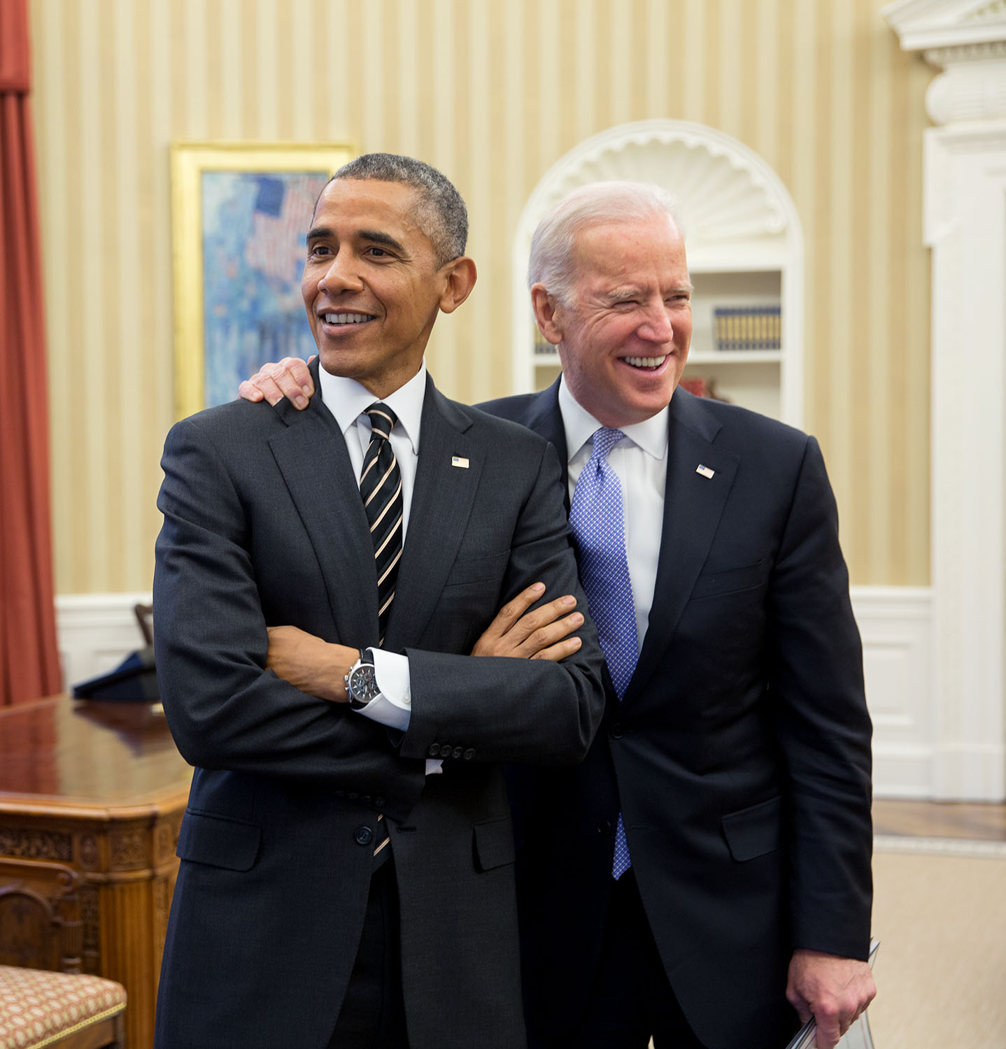 President Barack Obama jokes with Vice President Joe Biden in the Oval Office, Feb. 9, 2015. (Official White House Photo by Pete Souza)